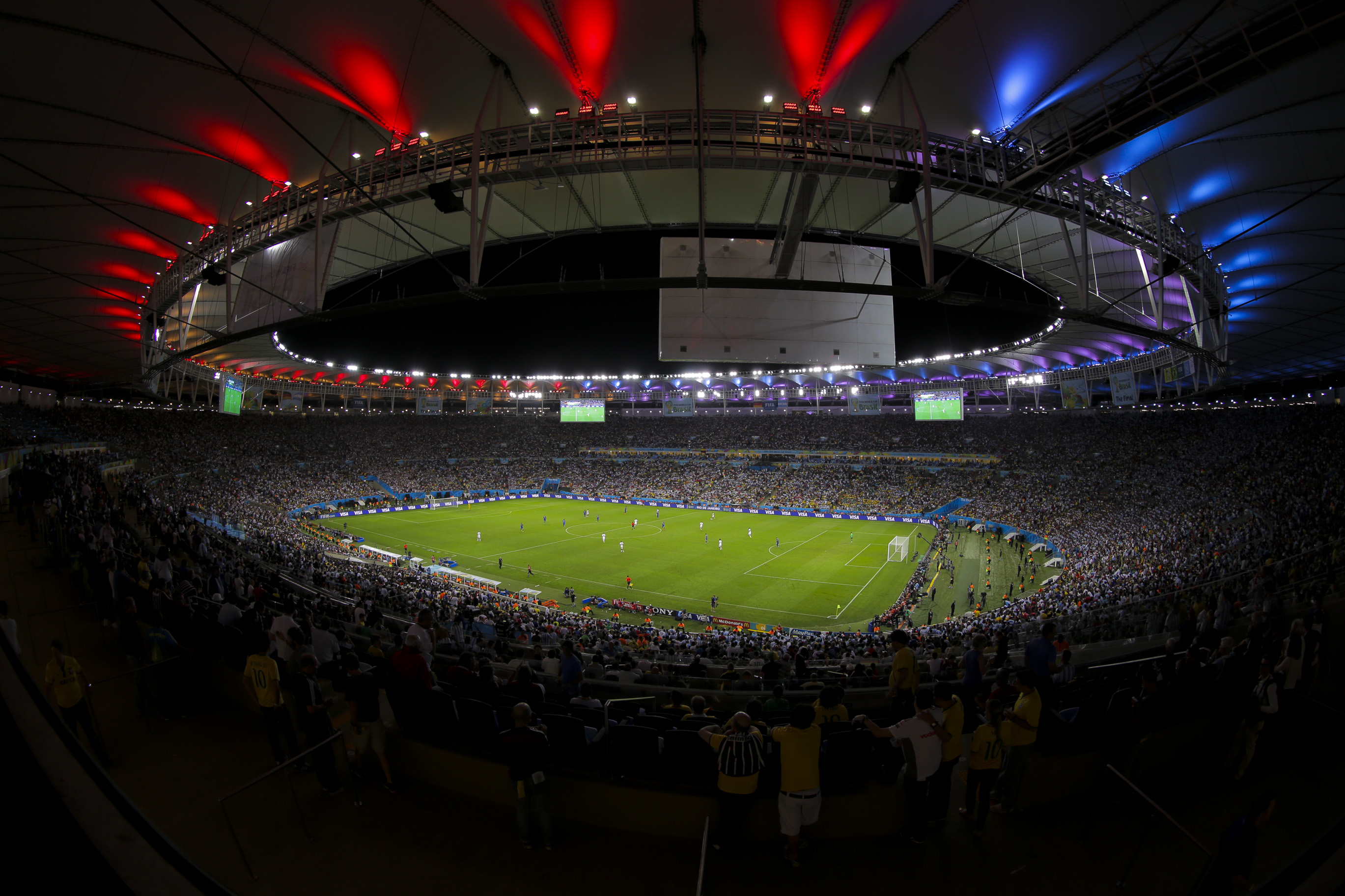 The final match of World Cup 2014 between Germany and Argentina 2014-07-13